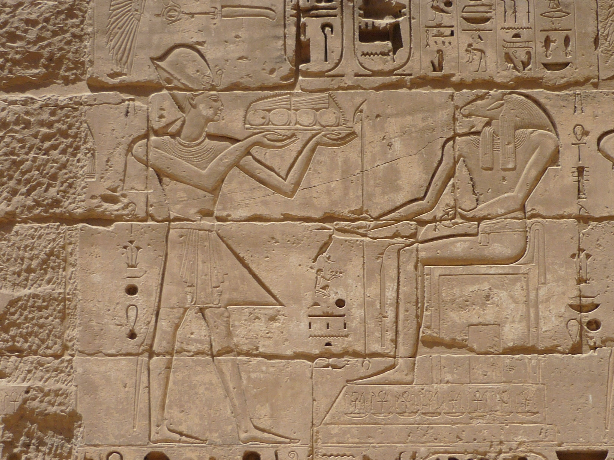 Wall relief of Amun receiving gifts from Ramses III, mortuary temple of Ramses III, Medinet Habu, Theban Necropolis, Egypt